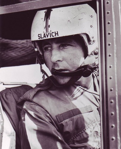 Ivan L. Slavich, Jr. (deceased)